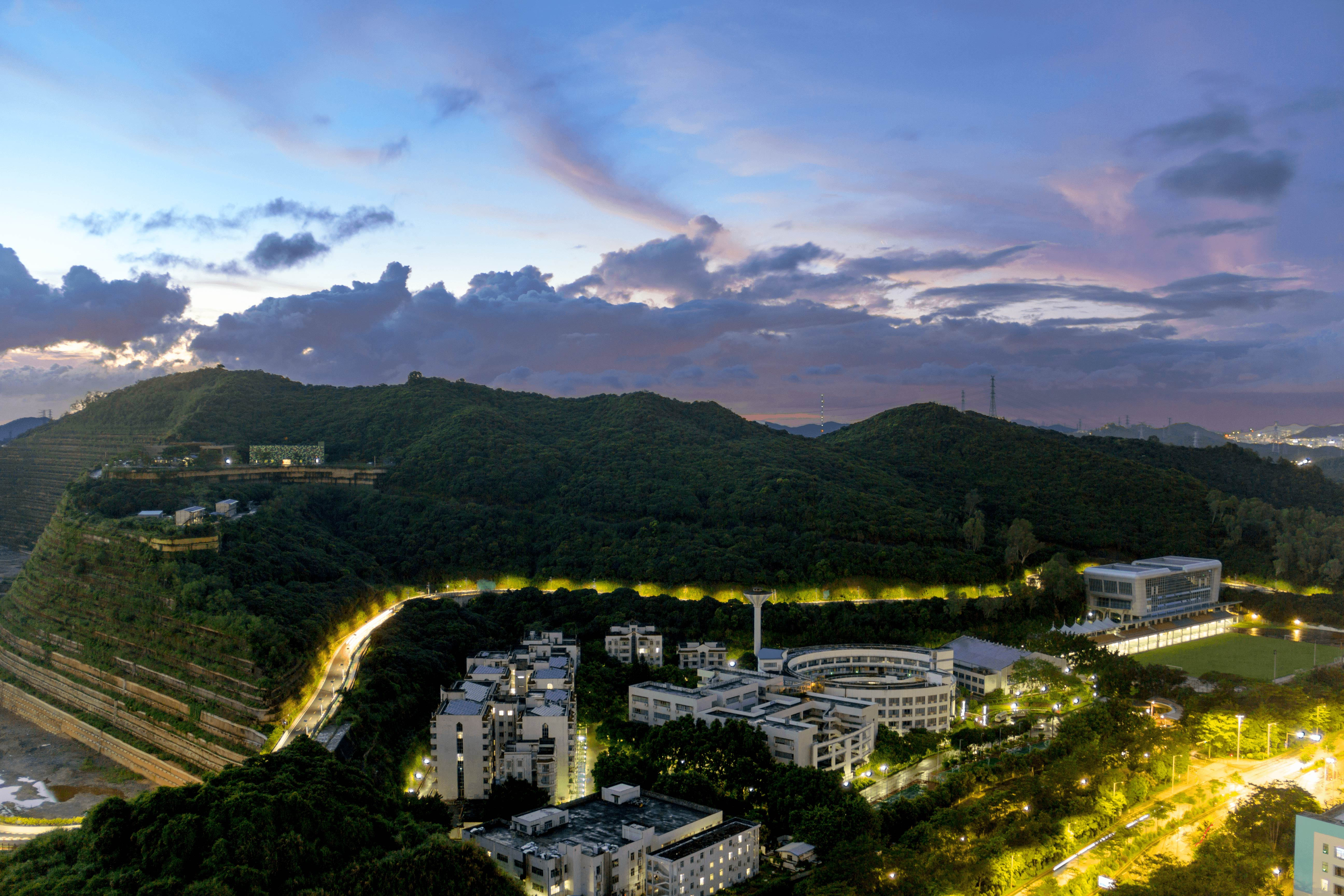 Night of shenzhen experimental school